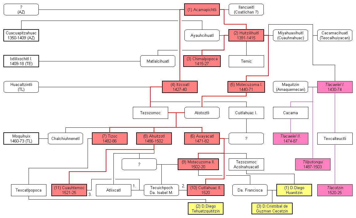 Tenochtitlan: genealogy of the ruling family.